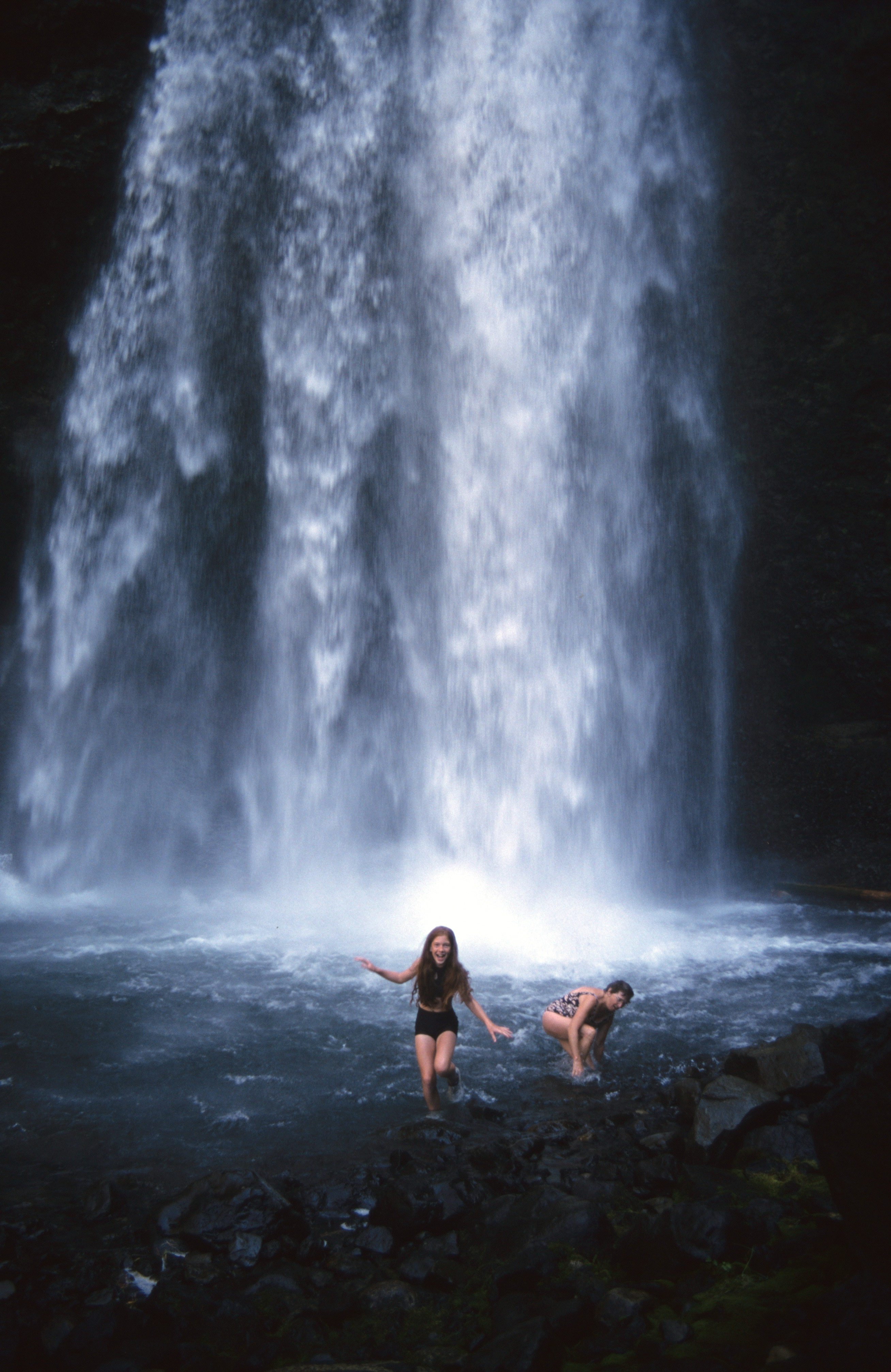 Depicted place: Moul Falls